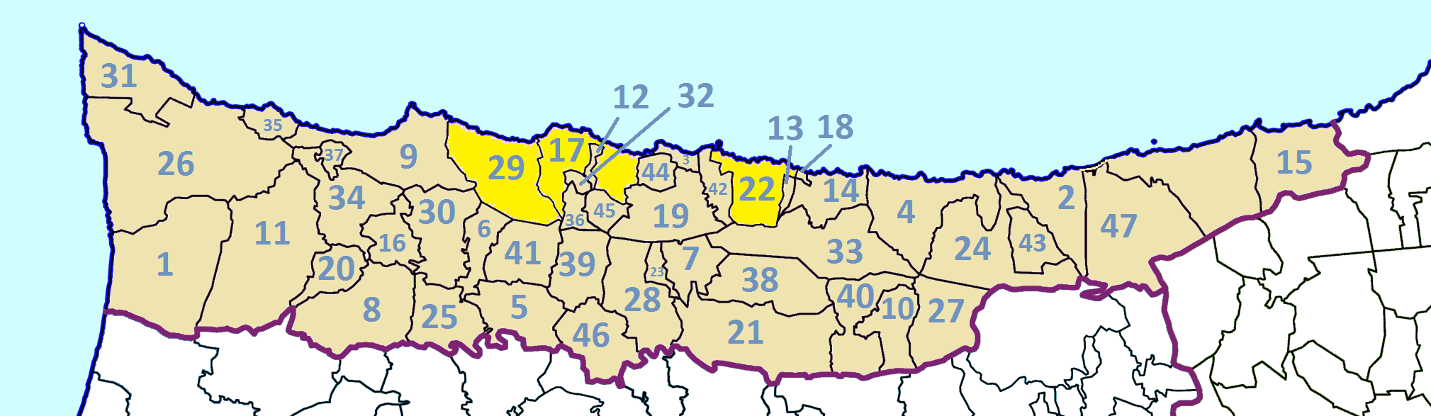 The municipalities and the communities of Kyrenia District (De jure) (the list is based on Greek alphabet).